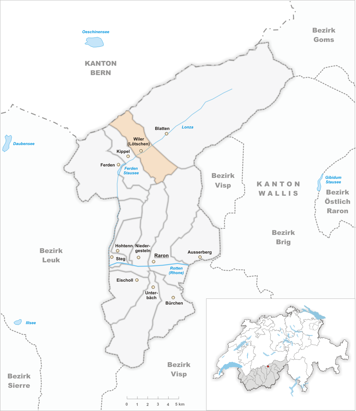 Municipality Wiler (Lötschen)